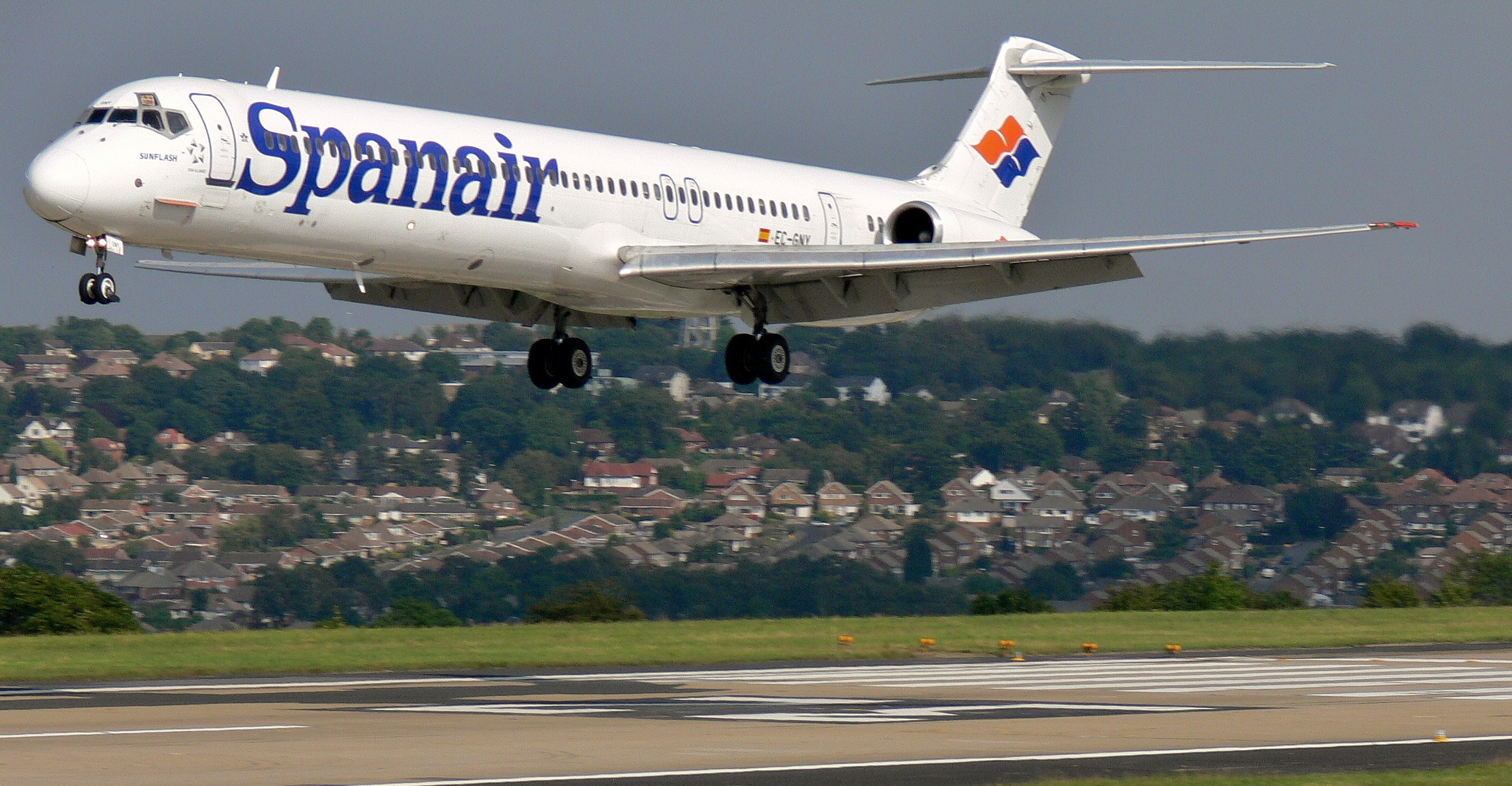 Spanair MD-83 lands at Leeds Bradford International Airport, UK